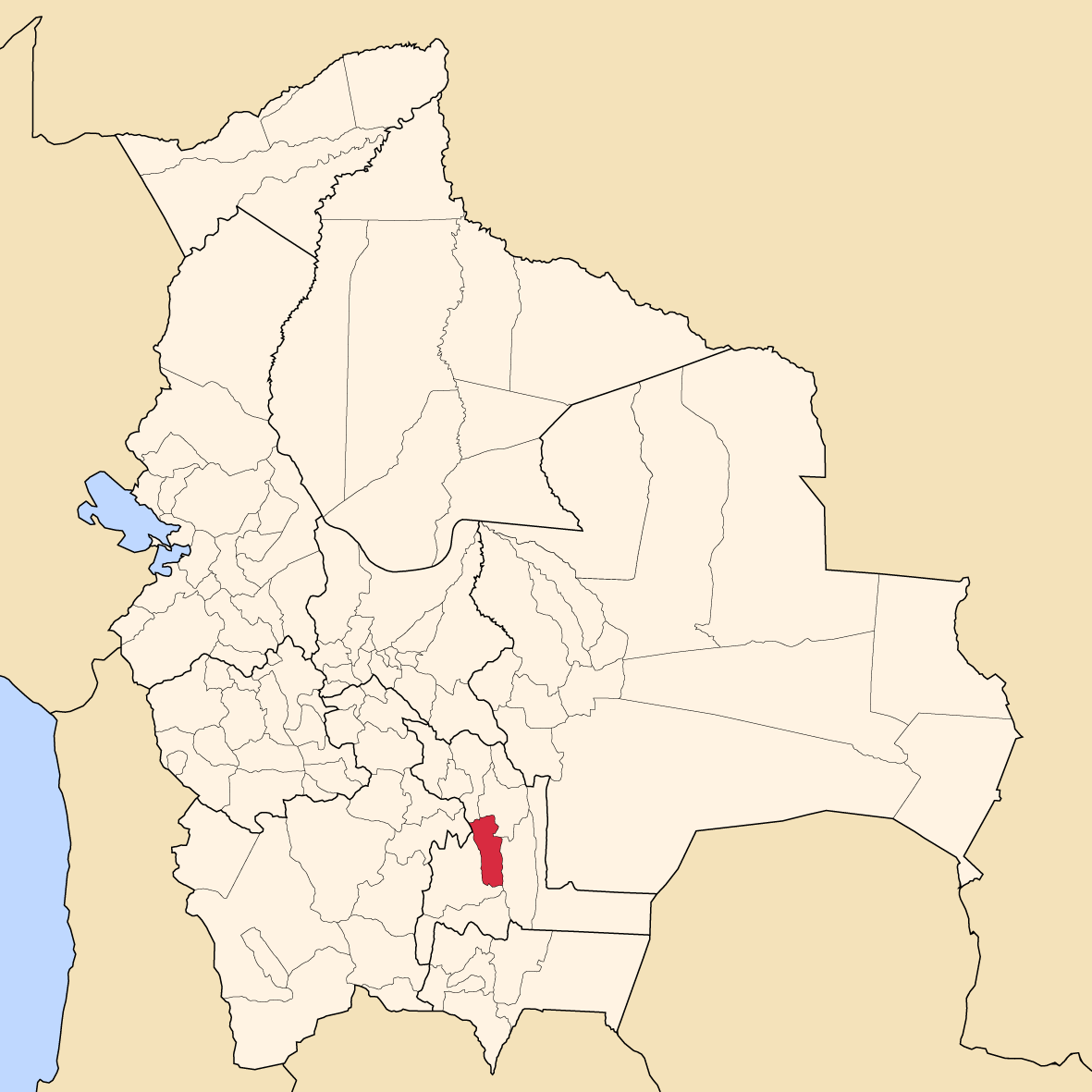 Map of Bolivia showing Azurduy province, Chuquisaca